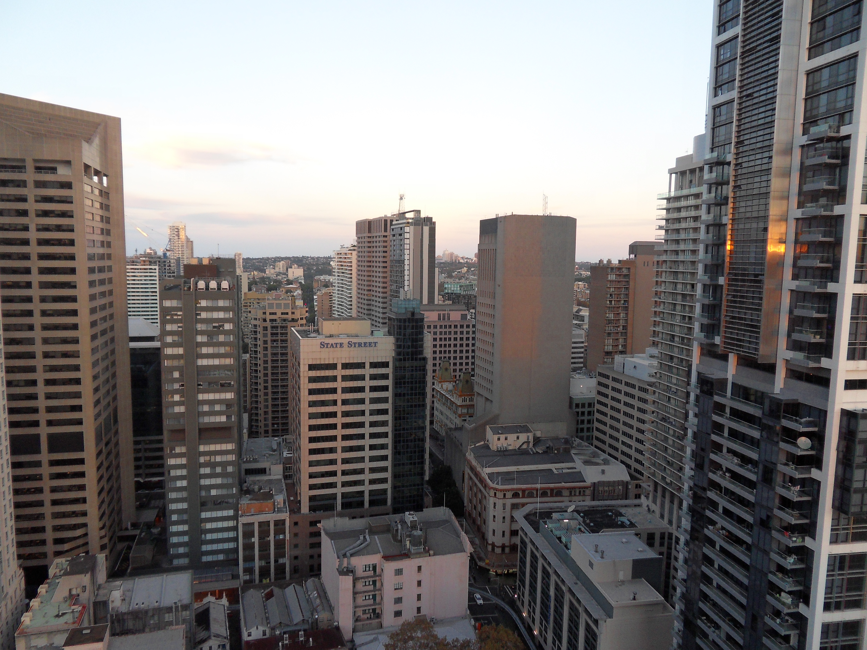 Sydney CBD looking east